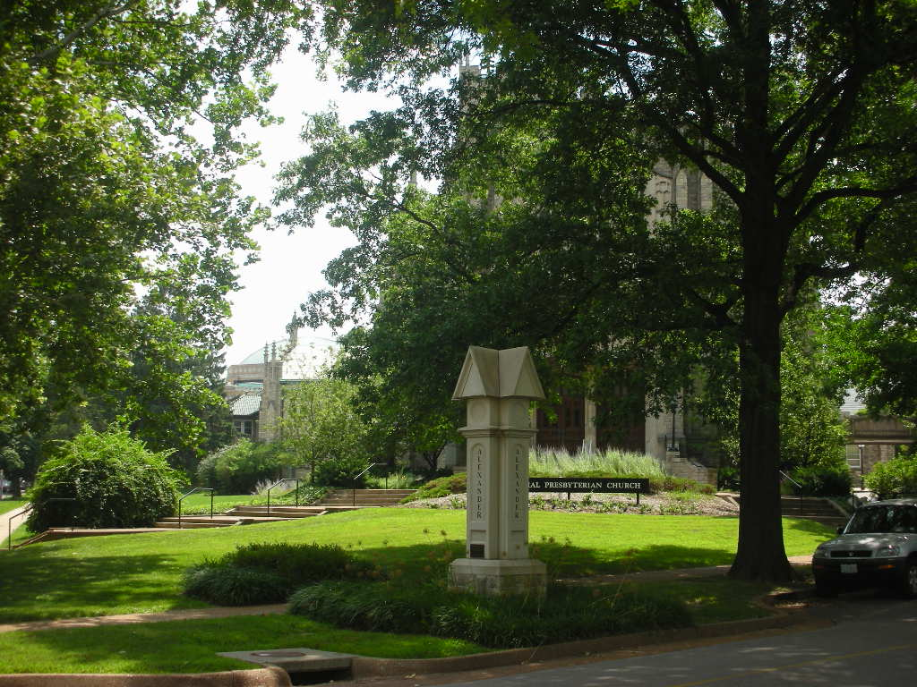 Photograph of churches in the Wydown/Skinker neighborhood in St. Louis, Mo.